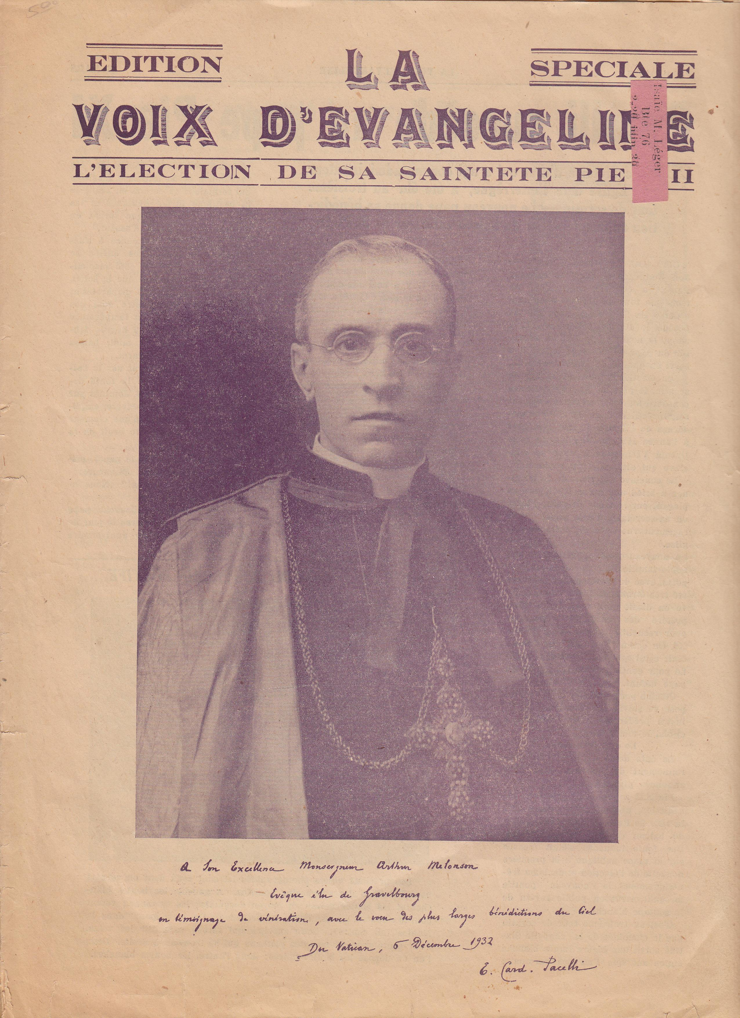 Front cover of a special edition of La Voix d’Évangéline in June 1939 focusing on the enthronization of Pope Pius XII.